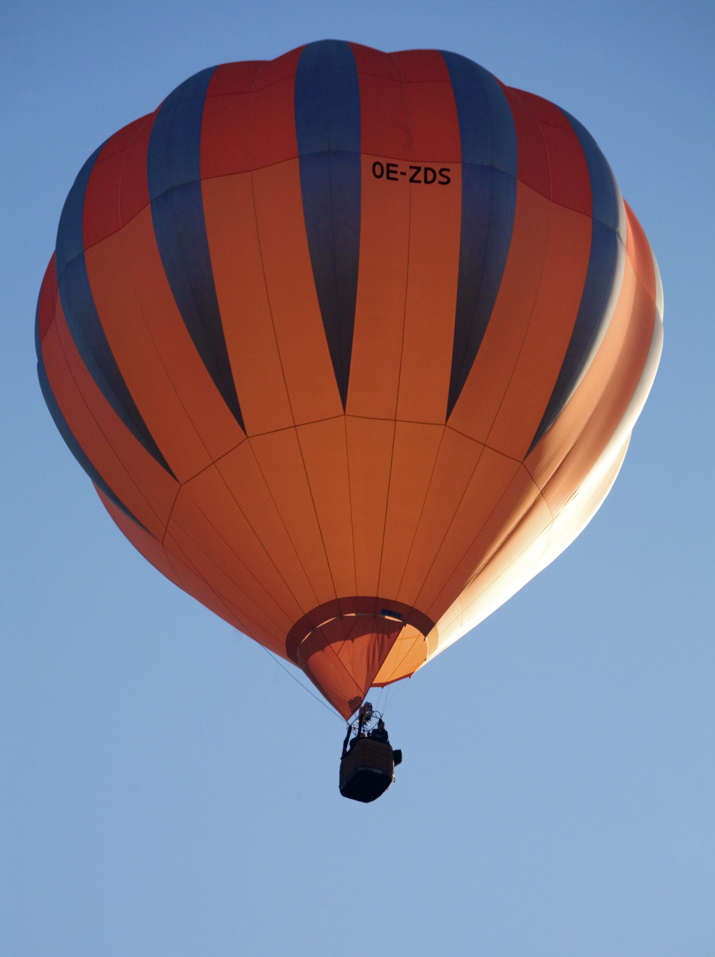 Hot Air Balloon Festival - Primagaz Ballonweek Stubenberg am See, Austria 2009